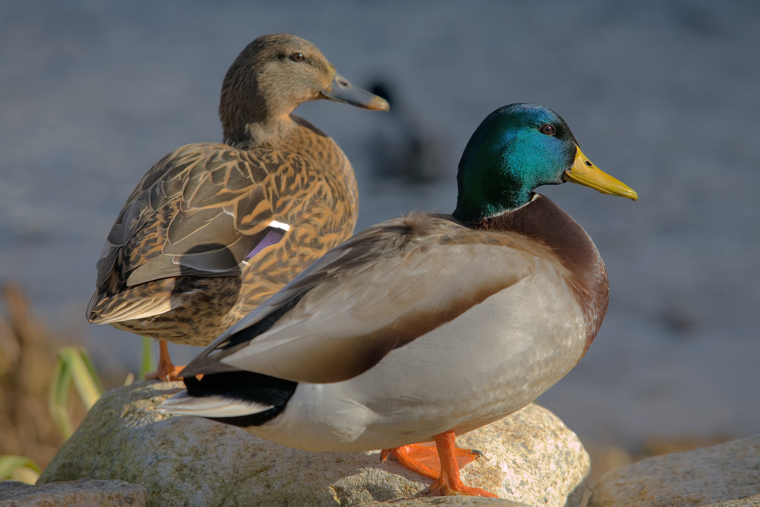 Ducks Anas platyrhynchos in Plymouth, Massachusetts, United States.